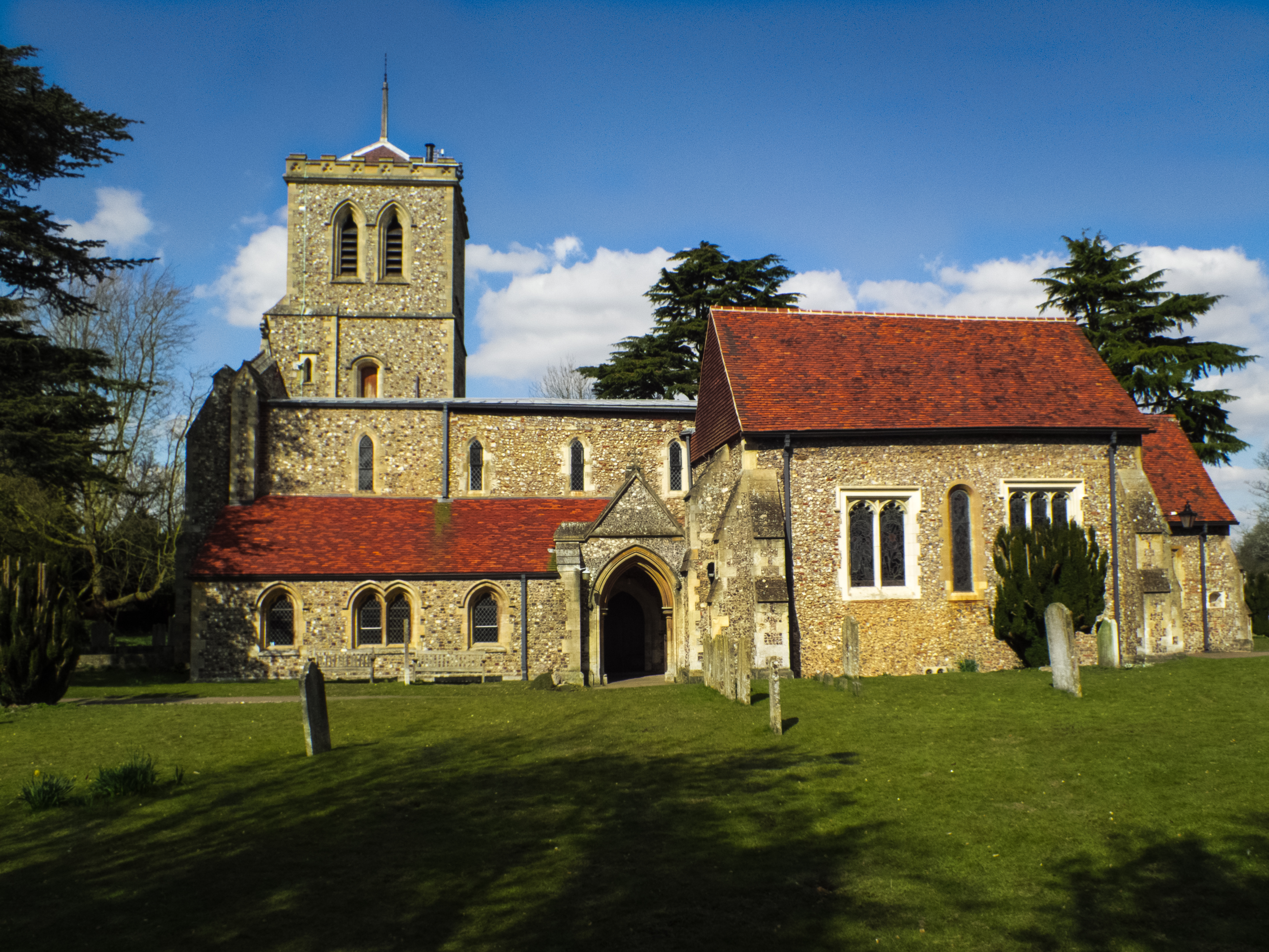 St Michael's Church, St Albans, Herfordshire, England